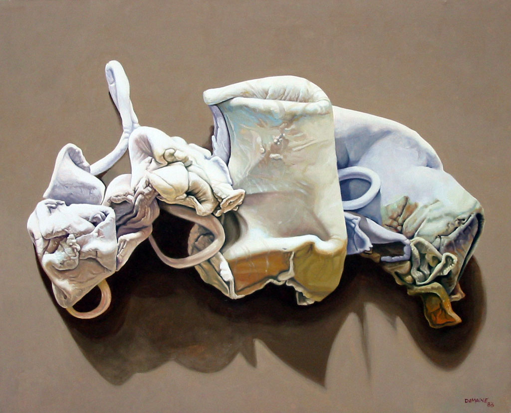 Le fond et la forme 3, by Bernard Dumaine, 1983 licensed under: Free Art License